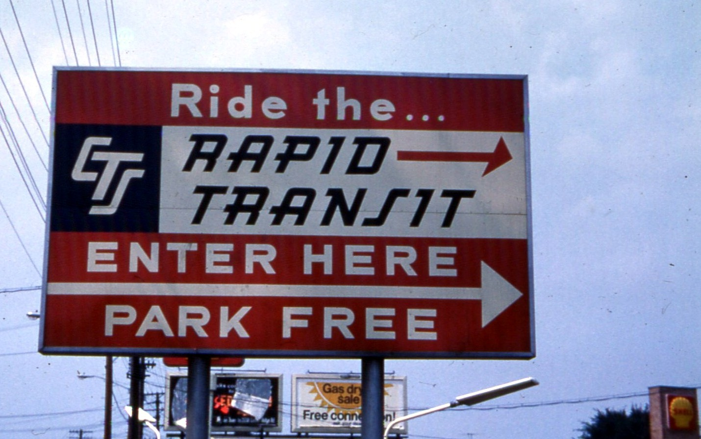 Old sign for the Cleveland Transit System rail line